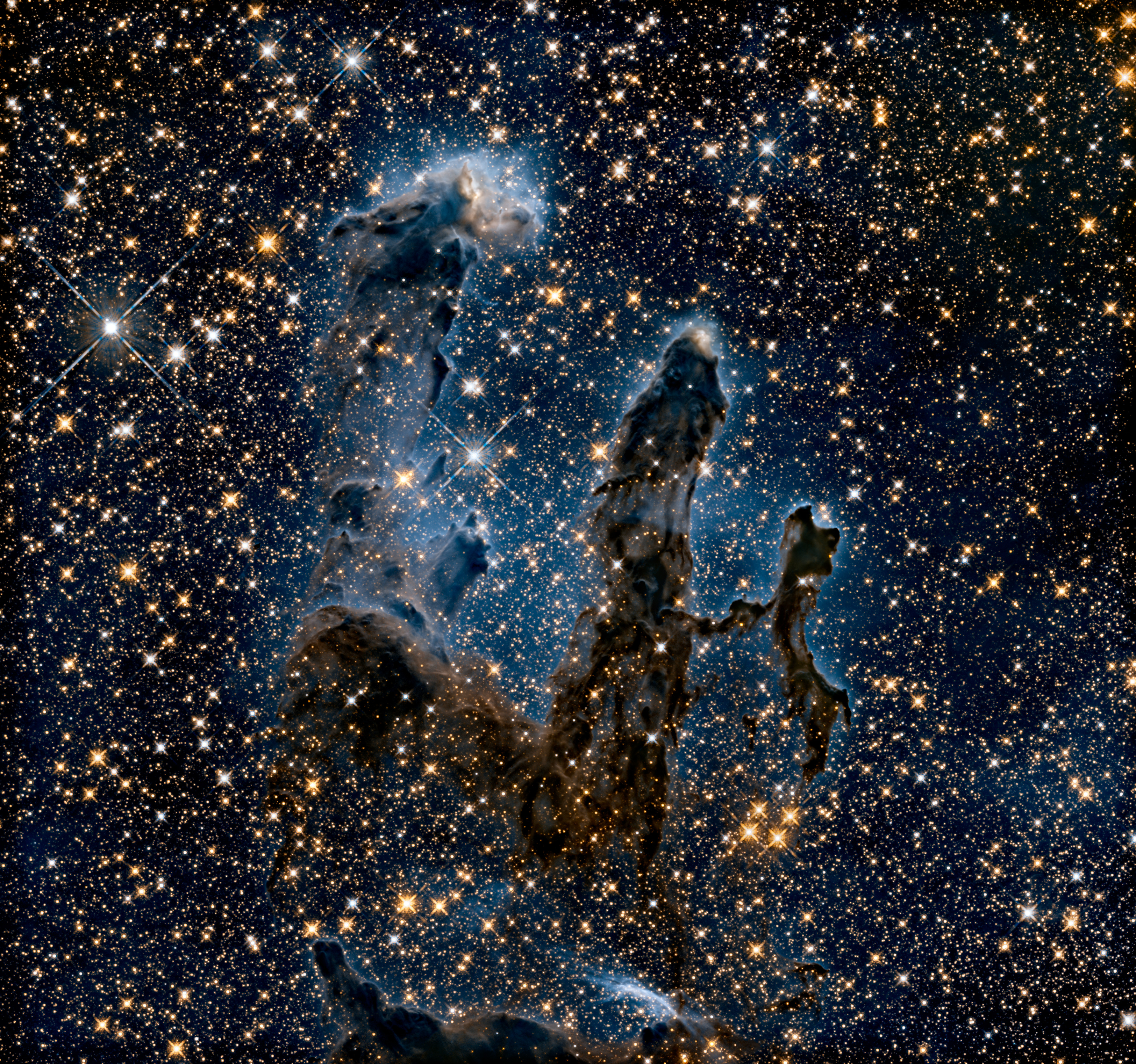 The NASA/ESA Hubble Space Telescope has revisited one of its most iconic and popular images: the Eagle Nebula’s Pillars of Creation. This image shows the pillars as seen in infrared light, allowing it to pierce through obscuring dust and gas and unveil a more unfamiliar — but just as amazing — view of the pillars. In this ethereal view the entire frame is peppered with bright stars and baby stars are revealed being formed within the pillars themselves. The ghostly outlines of the pillars seem much more delicate, and are silhouetted against an eerie blue haze. Hubble also captured the pillars in visible light.